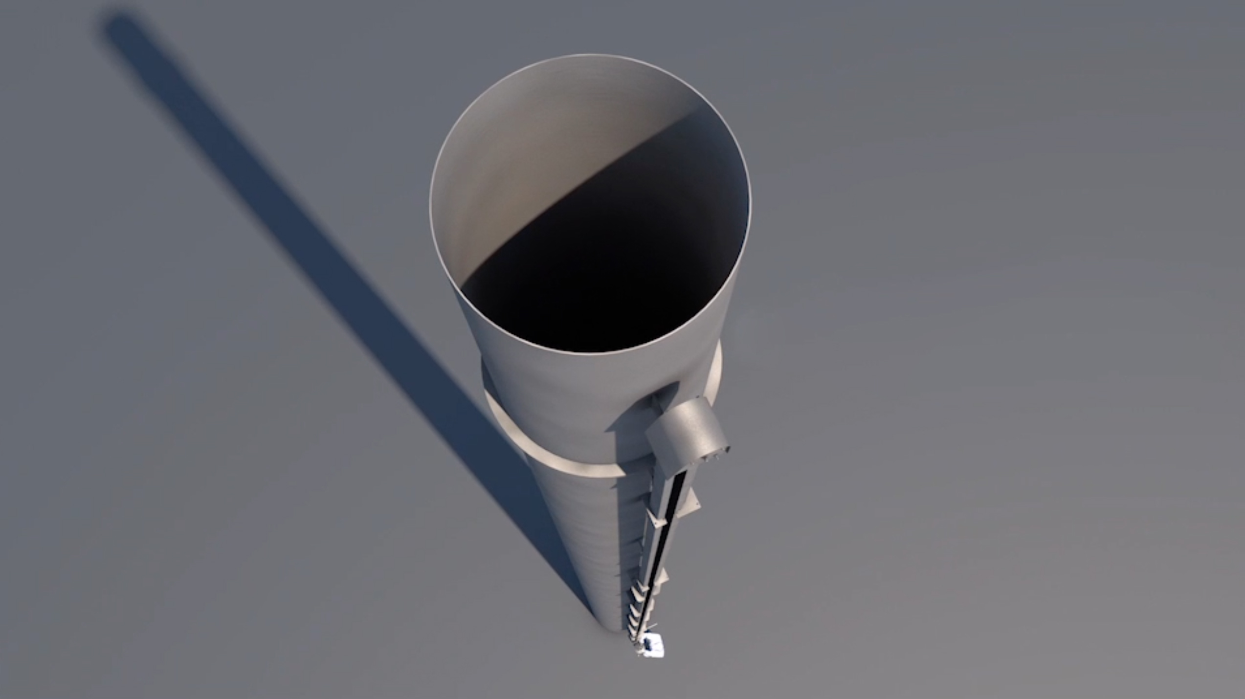 Retractable System for Aircraft Warning Lights, Process Analysers, Spot and Flood Lights, Radio Antennas, Radar